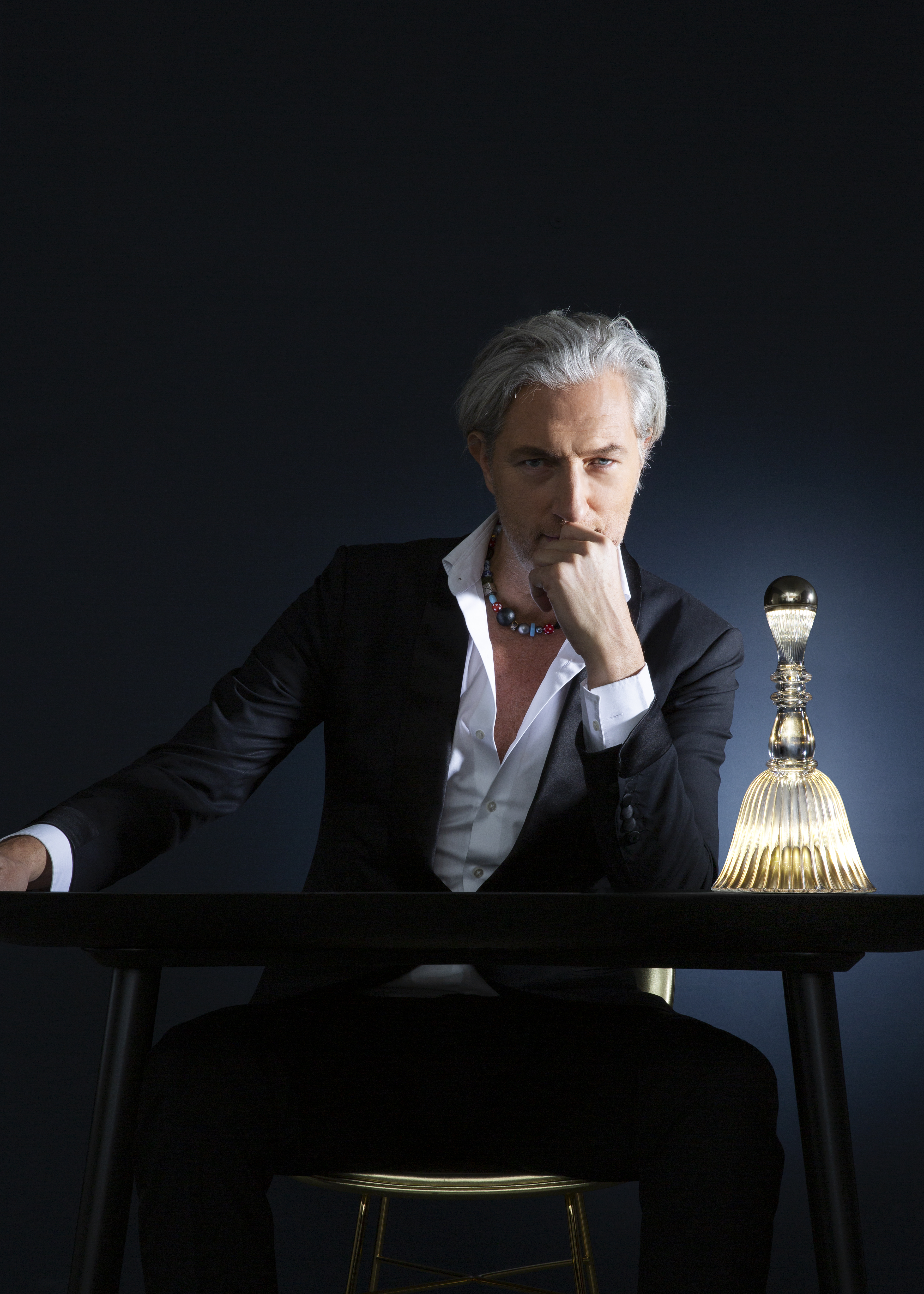 RAMUN provide this picture.